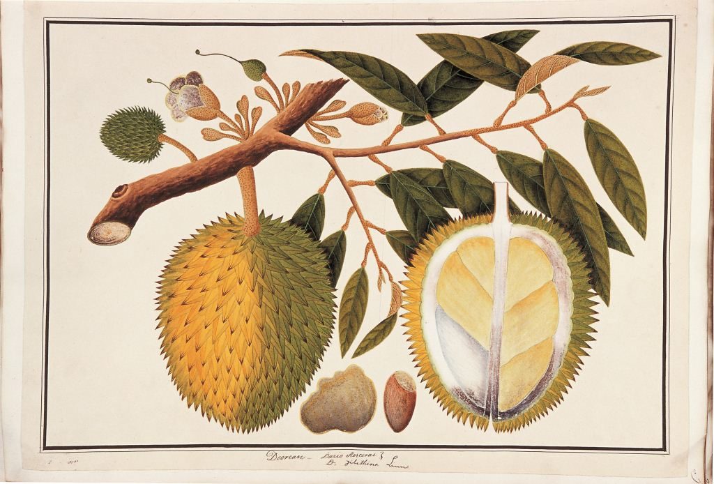 A watercolour drawing of the durian (Durio zibethinus). The term Durio stercorae was authored by a botanist in 1790 who must have disliked durian as he likened it to faeces. The drawing is one of 477 natural history drawings of plants and animals of Malacca and Singapore commissioned by William Farquhar.